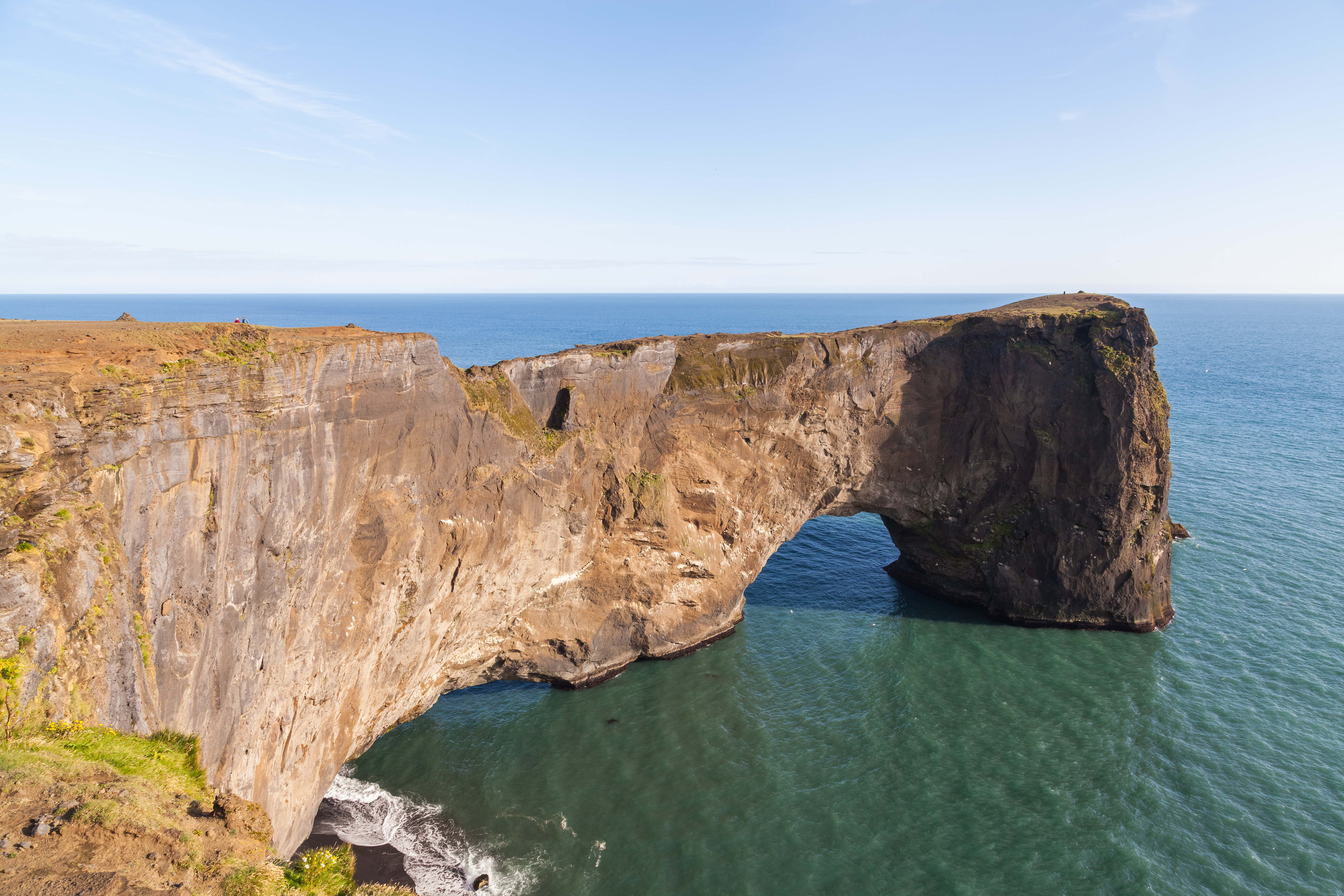 Dyrhólaey Arch, Suðurland, Iceland. The ocean has worn the black basalt here into a 120 meters (394 ft) high arch which also serves as a bird sanctuary.